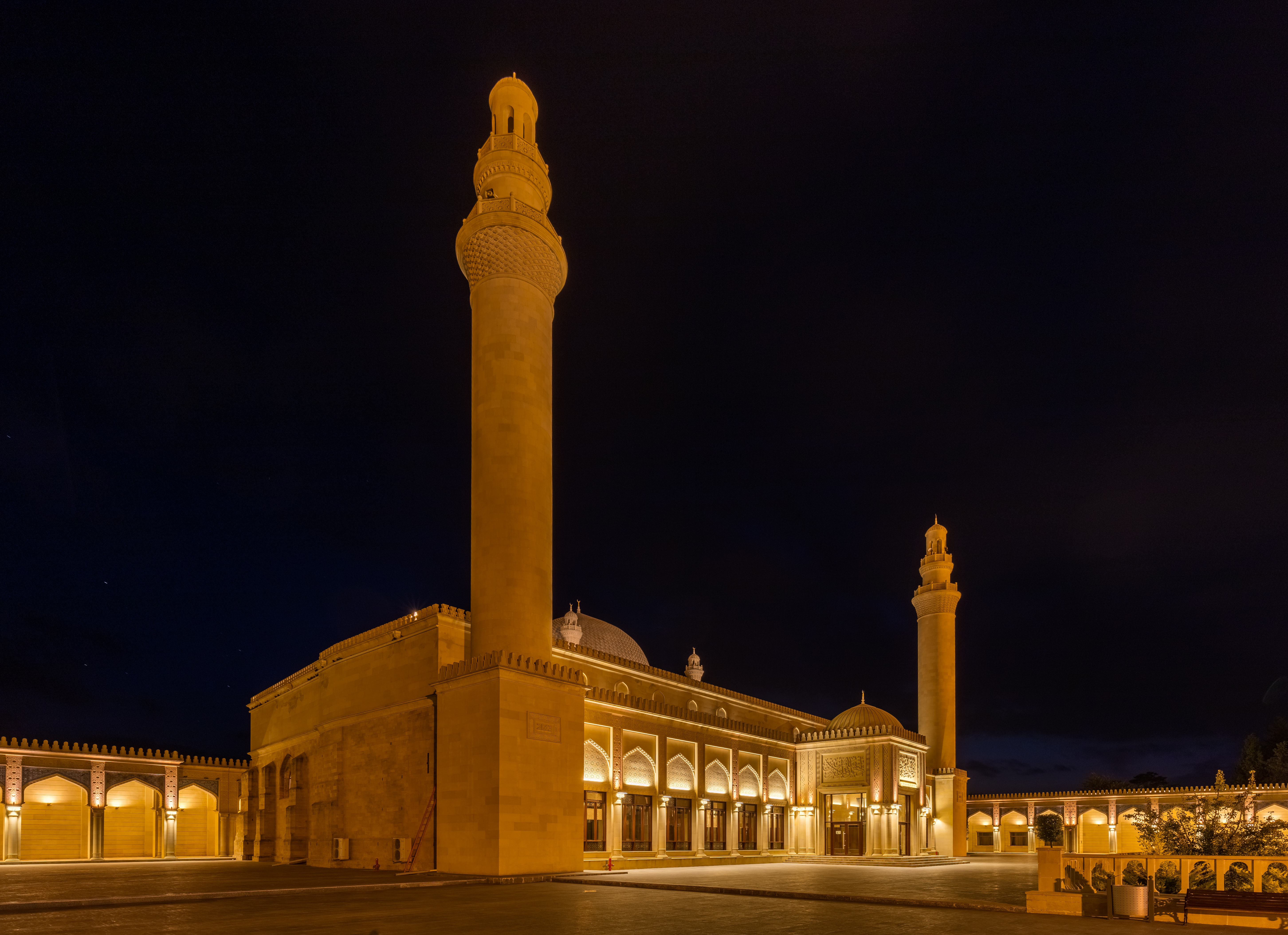 Friday Mosque, Shamakhi, Azerbaijan